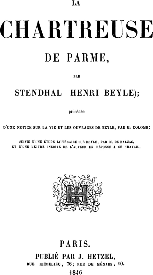 Illustration of The Charterhouse of Parma (1839) by Stendhal (1783-1842)